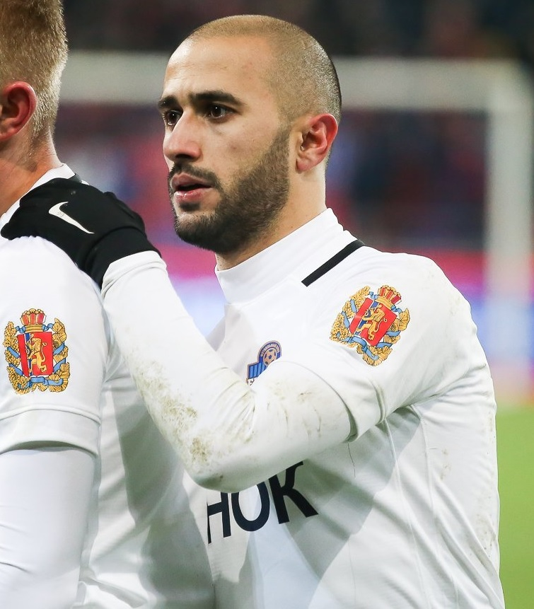 Artur Sarkisov with FC Yenisey Krasnoyarsk in a game against PFC CSKA Moscow.